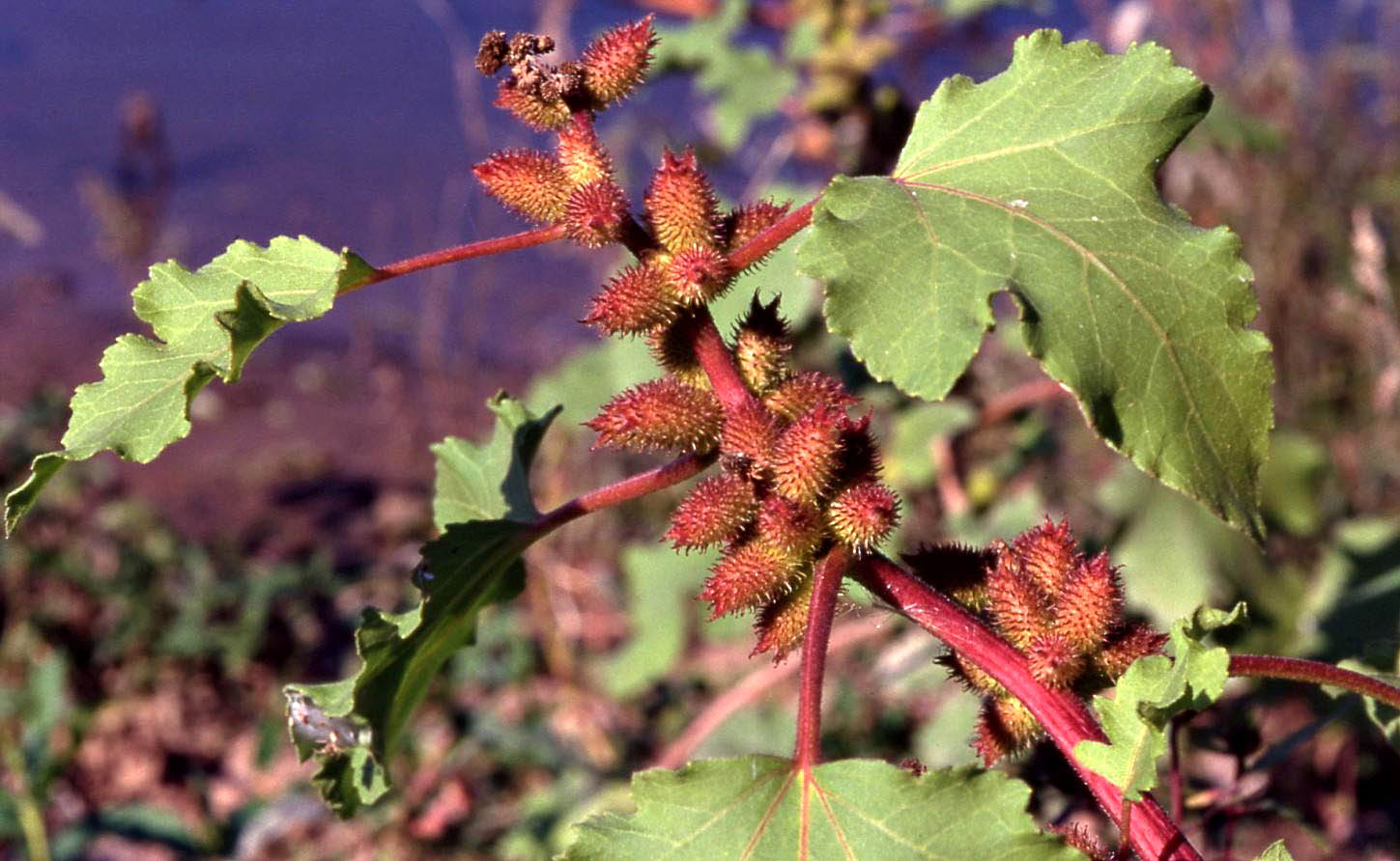 Plant from Xanthium albinum ssp. albinum, growing at the river banks of the Elbe. This subspecies has been developed in Europe; its next relatives are from North America.